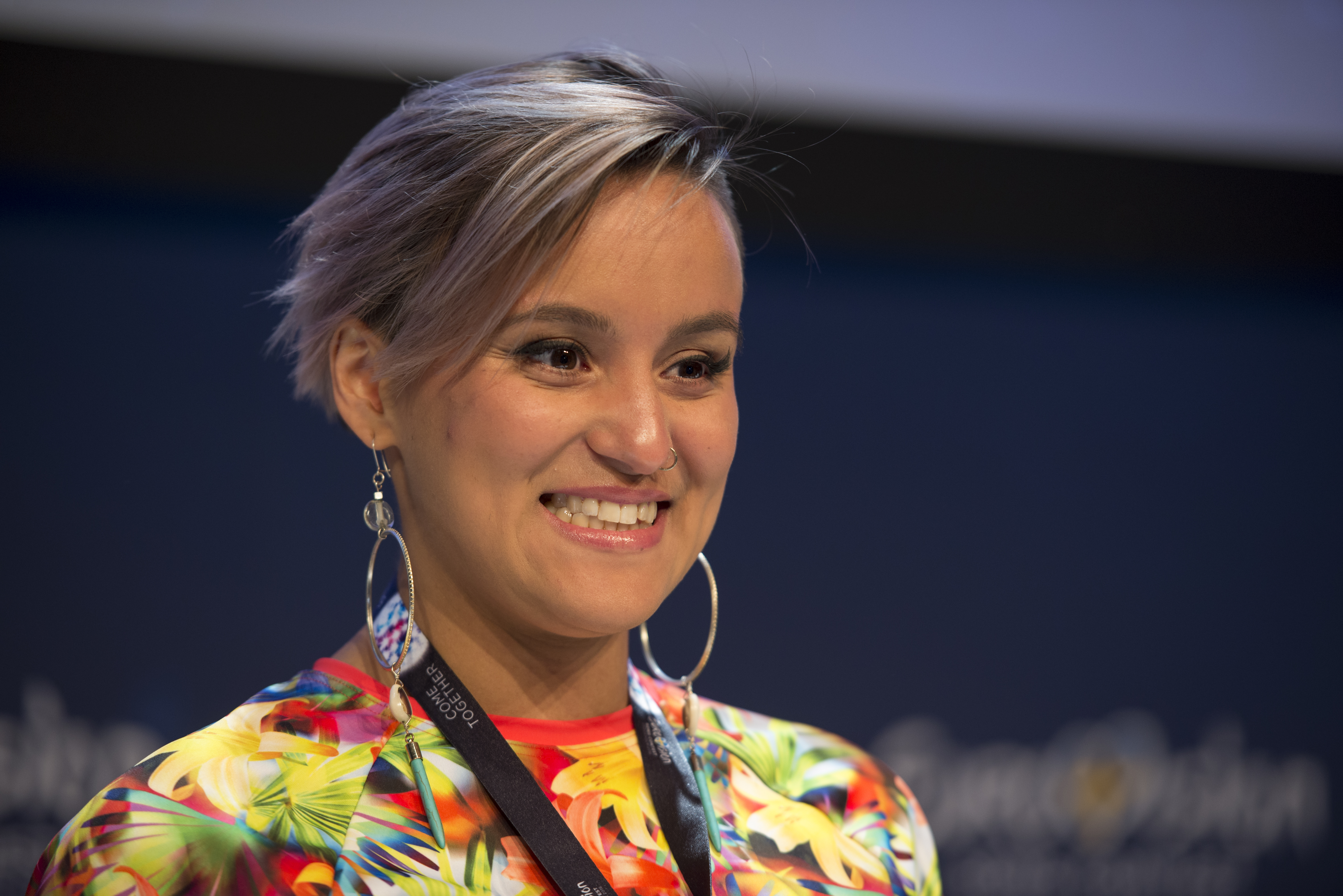 Sandhja at a Meet & Greet during the Eurovision Song Contest 2016 in Stockholm. (Help translate this text)